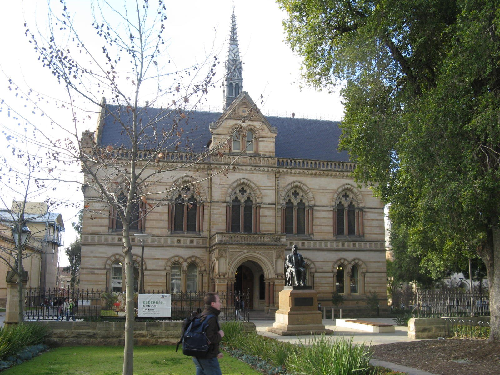 The Mitchell Building, University of Adelaide, North Terrace, Winter 2008.